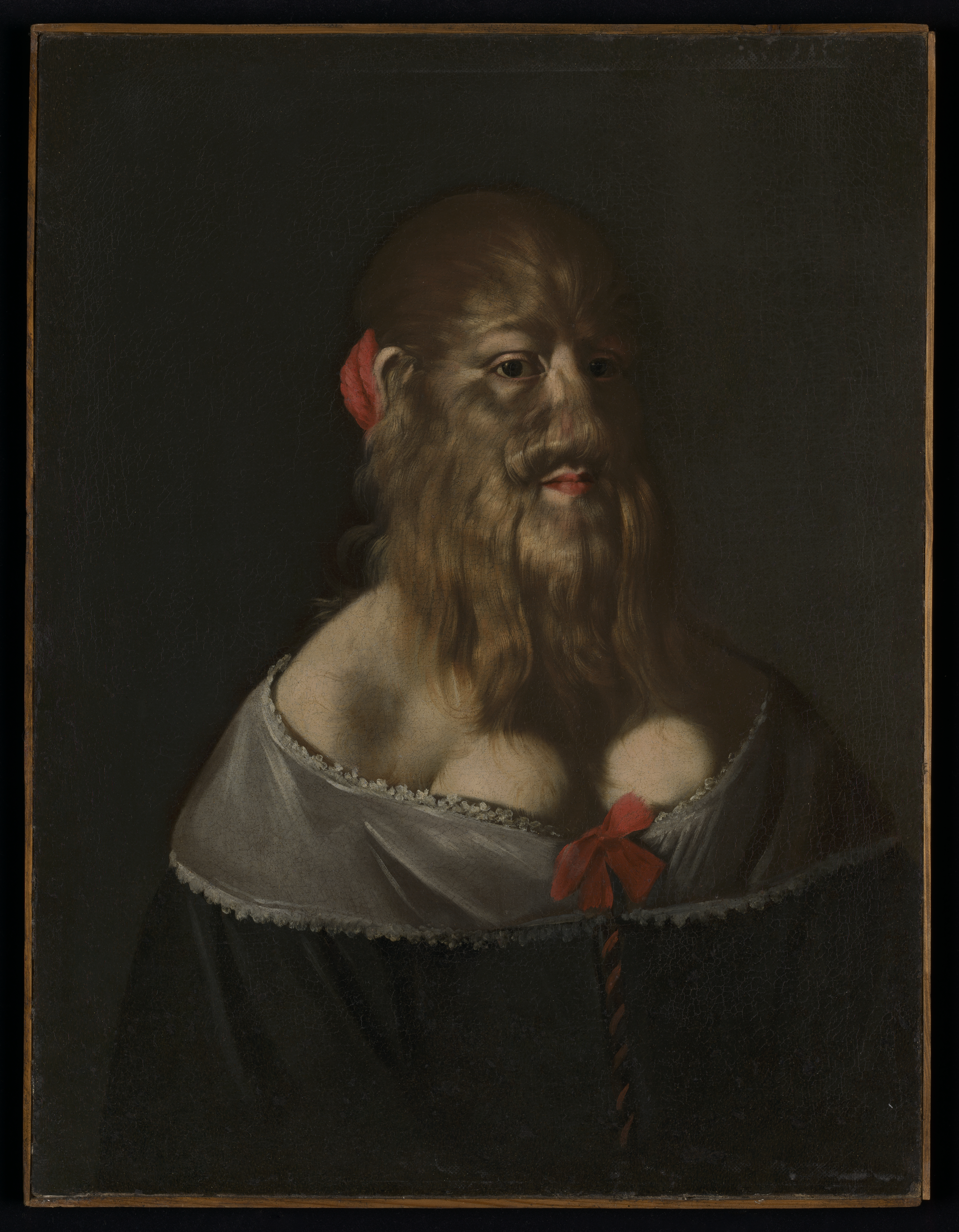 A painting of Barbara van Beck (1629 – c. 1668), 17th century woman known for having a condition whereby her face and much of her body were covered with hair. Keywords: Hypertrichosis; portrait prints; Barbara Vanbeck; vanbeck, barbara, b. 1629